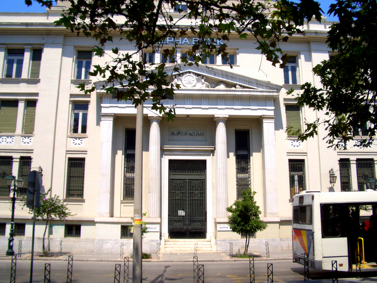 The Residence of the Alpha Bank at the corner of the Streets Ionos Dragoumi and Mitropoleos, Thessaloniki